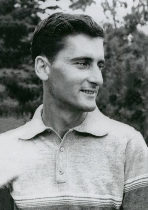 1958 Press Photo Hillman Robbins, Martin Stanovich at USGA Amateurs in CA